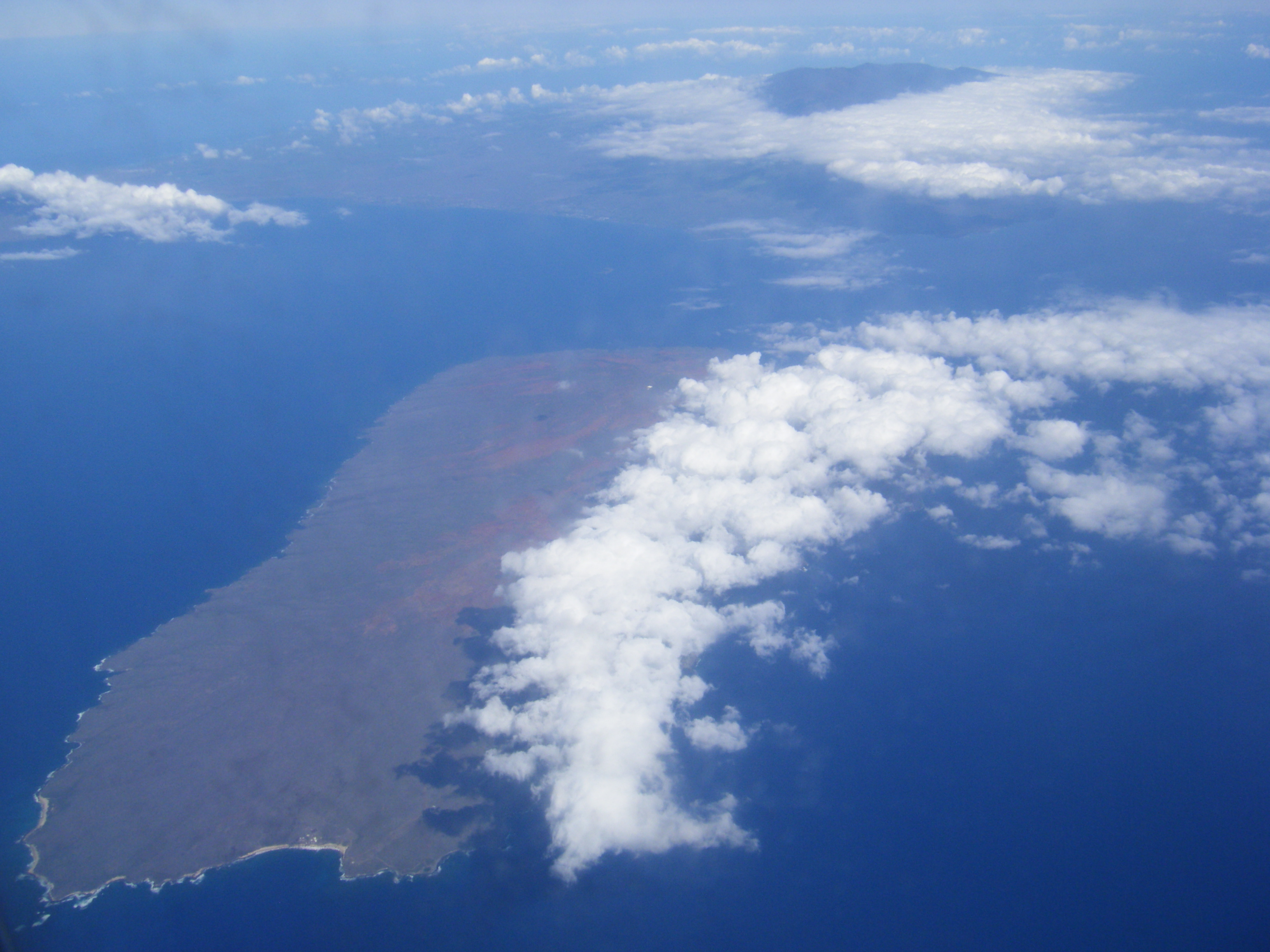 Aerial of Haleakala and Kahoolawe of Maui, Hawaii Hawaiʻi: Haleakalā a me Kahoolawe, kalana o Maui, Hawaiʻi